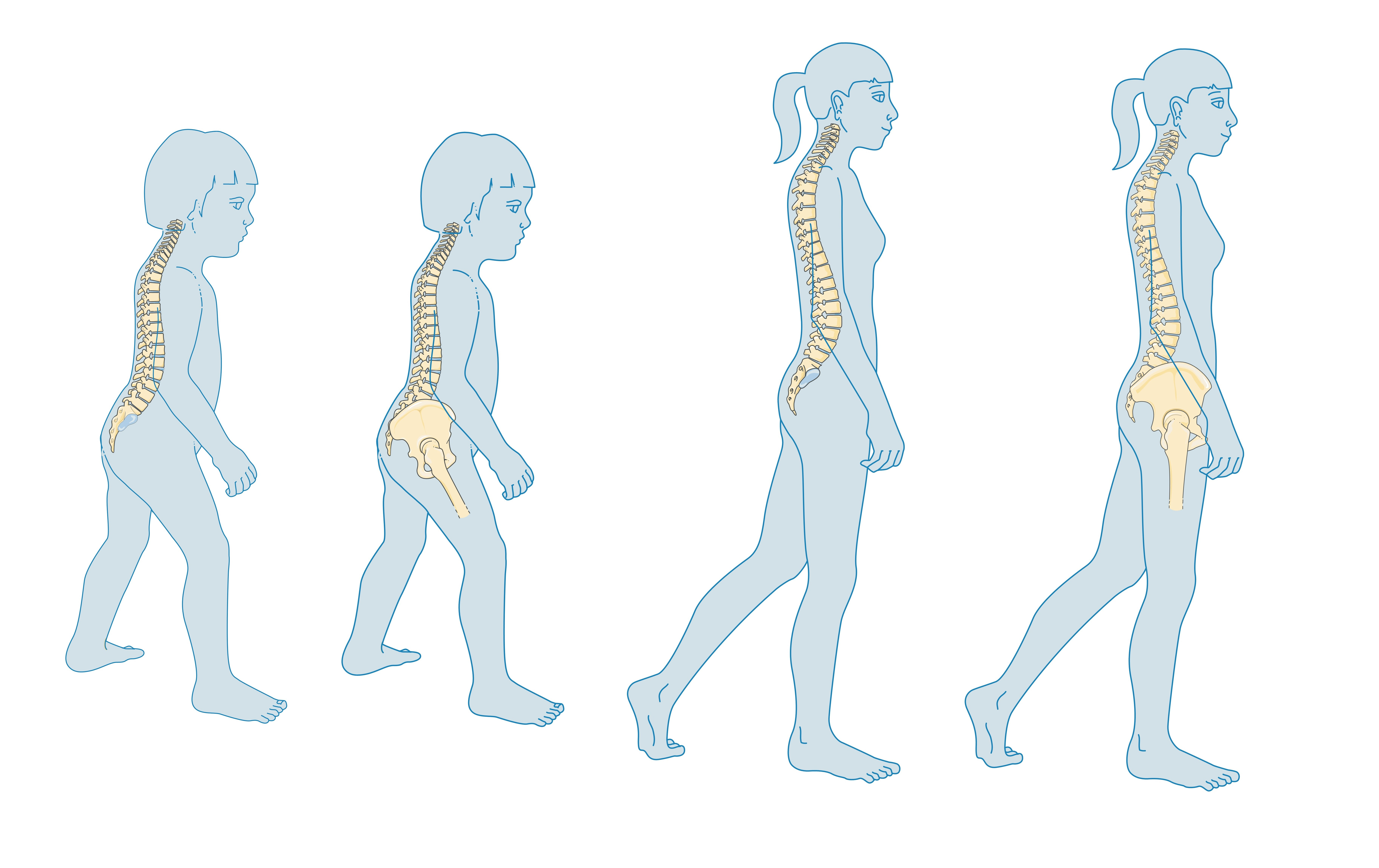 Skeleton and bones - Child teenager